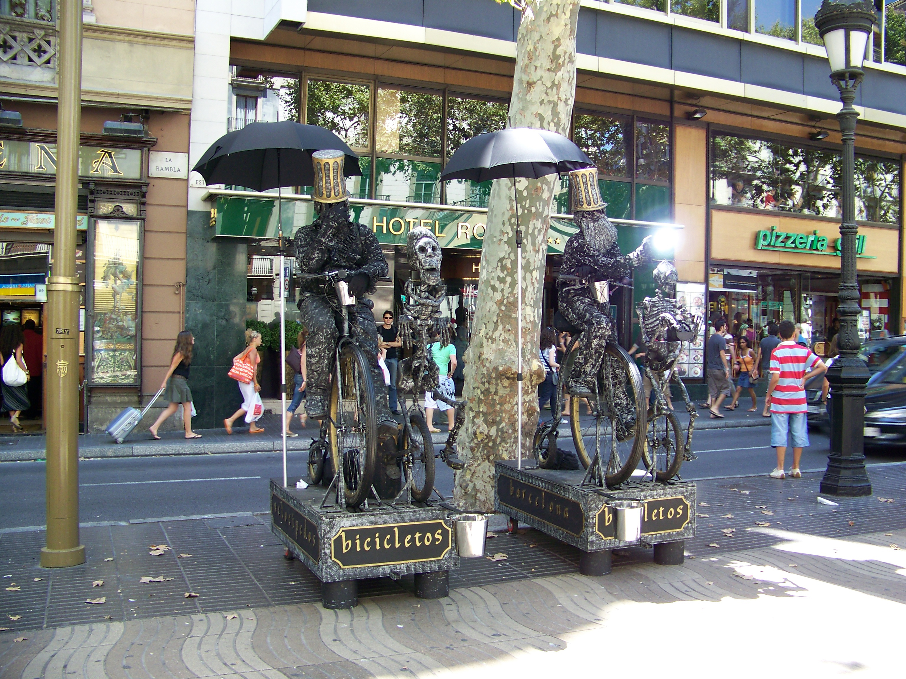 Street performers in Barcelona, Spain.